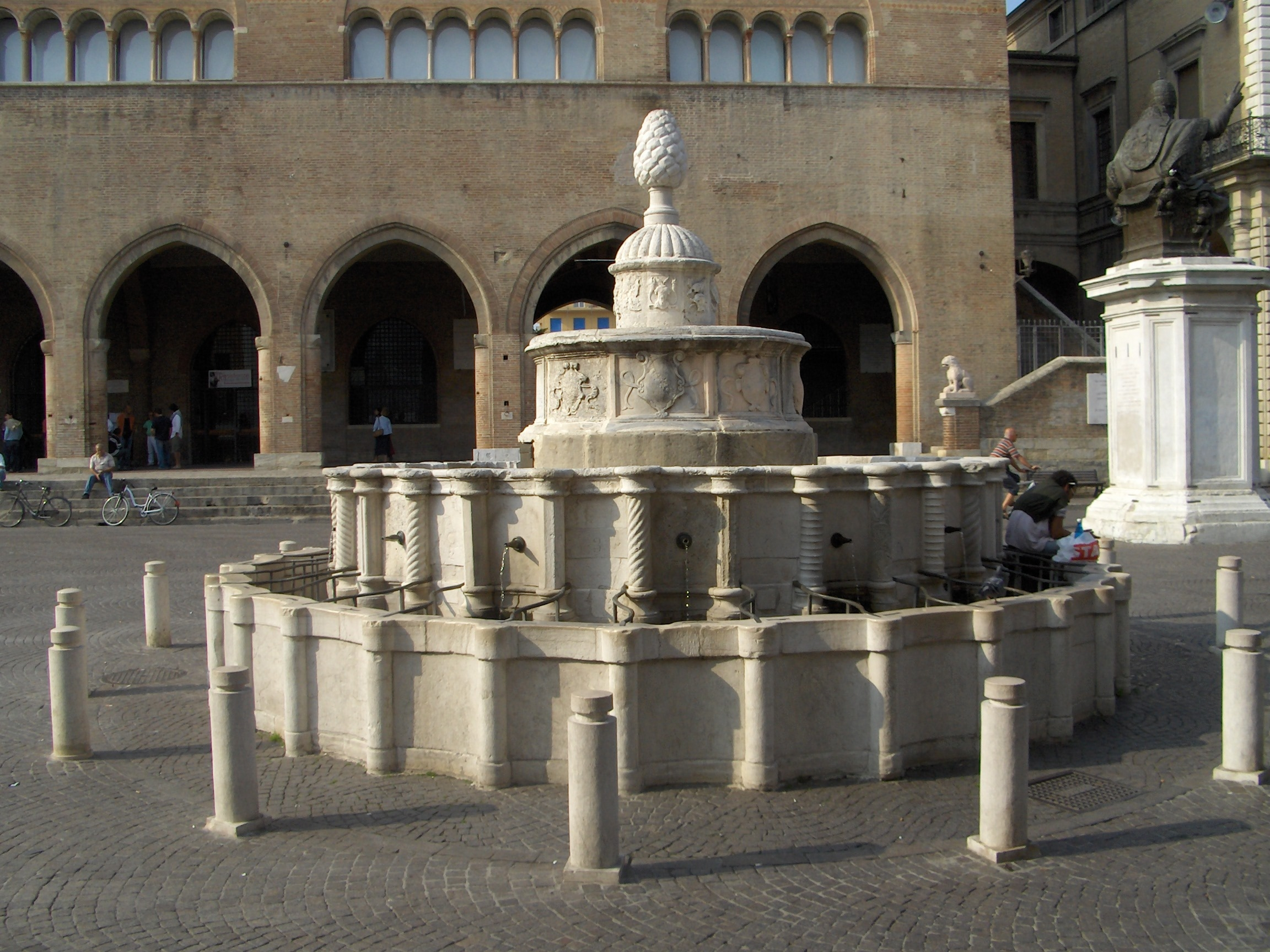 Fontana della Pigna, is a fountain in the city of Rimini. Source: photo uploaded by User:RicciSpeziari. Photographer: Basilio Speziari